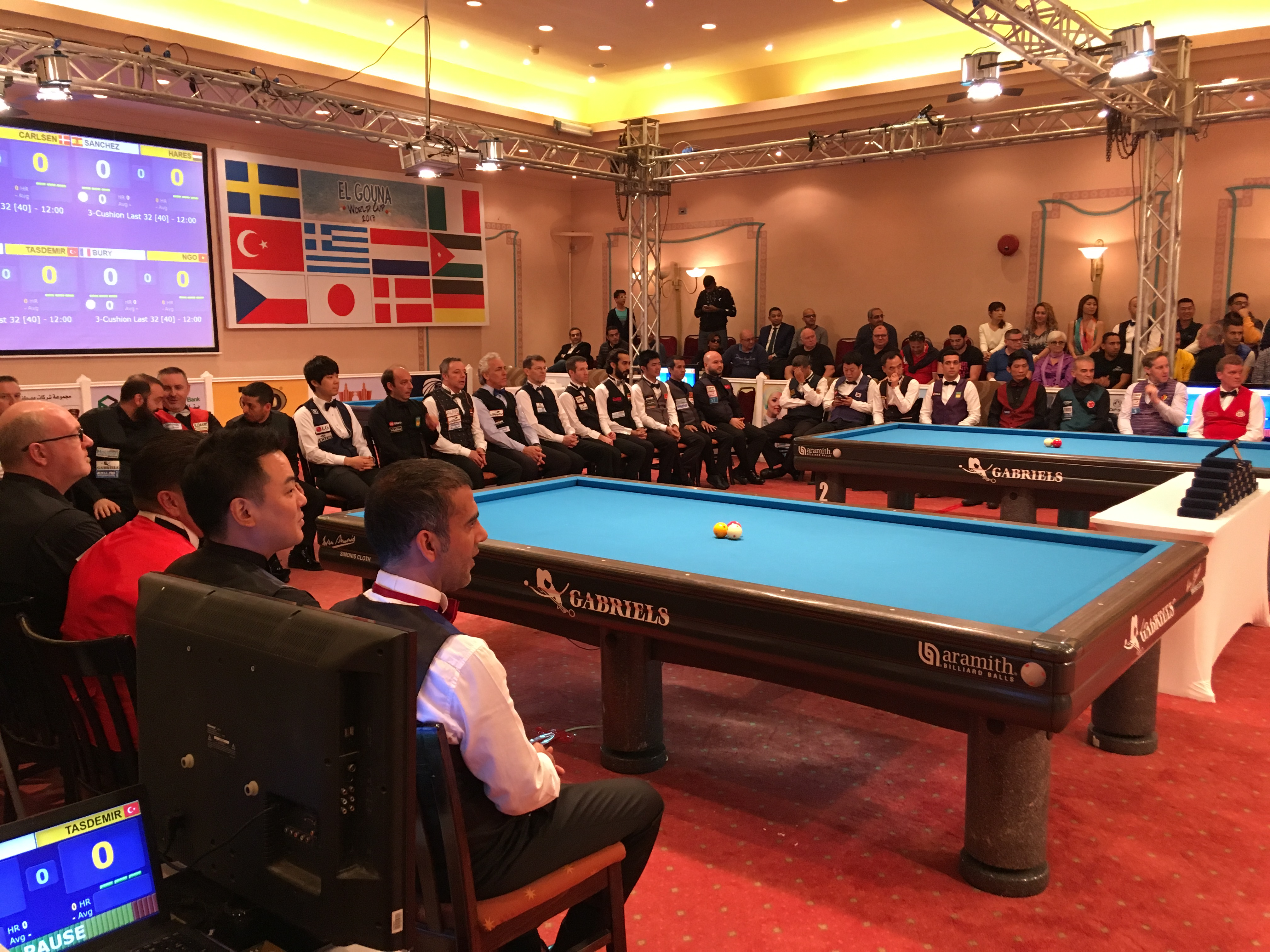 see file name